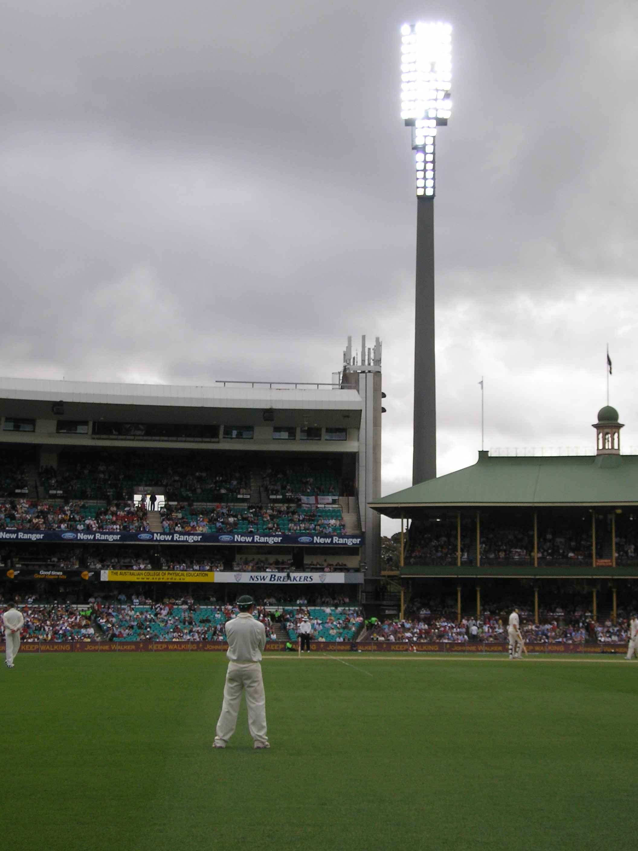 Sydney Cricket Ground, Tuesday, 2 January 2006. During en:2006-07 Ashes series.